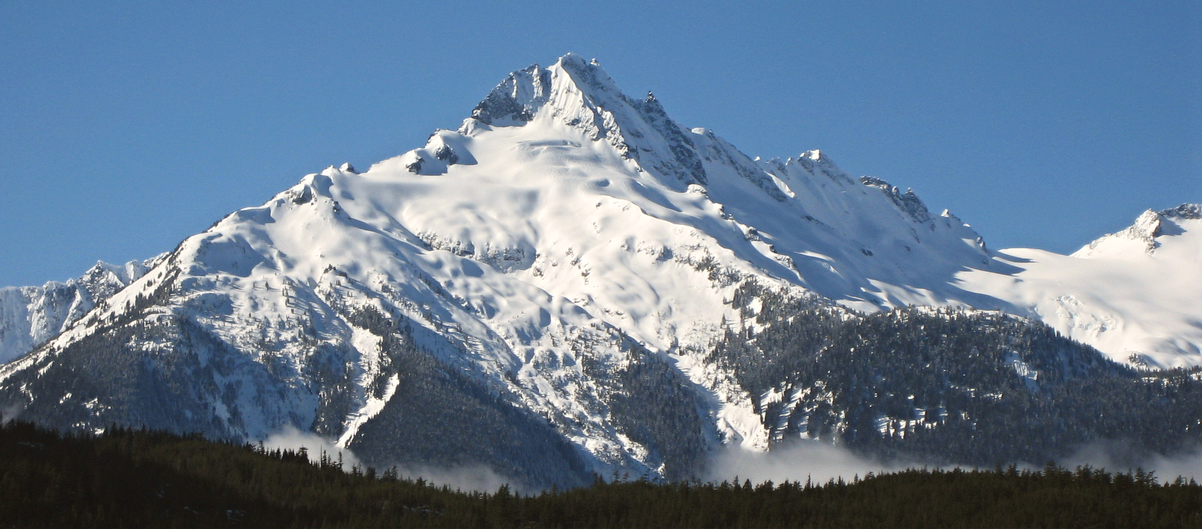 Alpha Mountain, Tantalus Range of BC, Canada